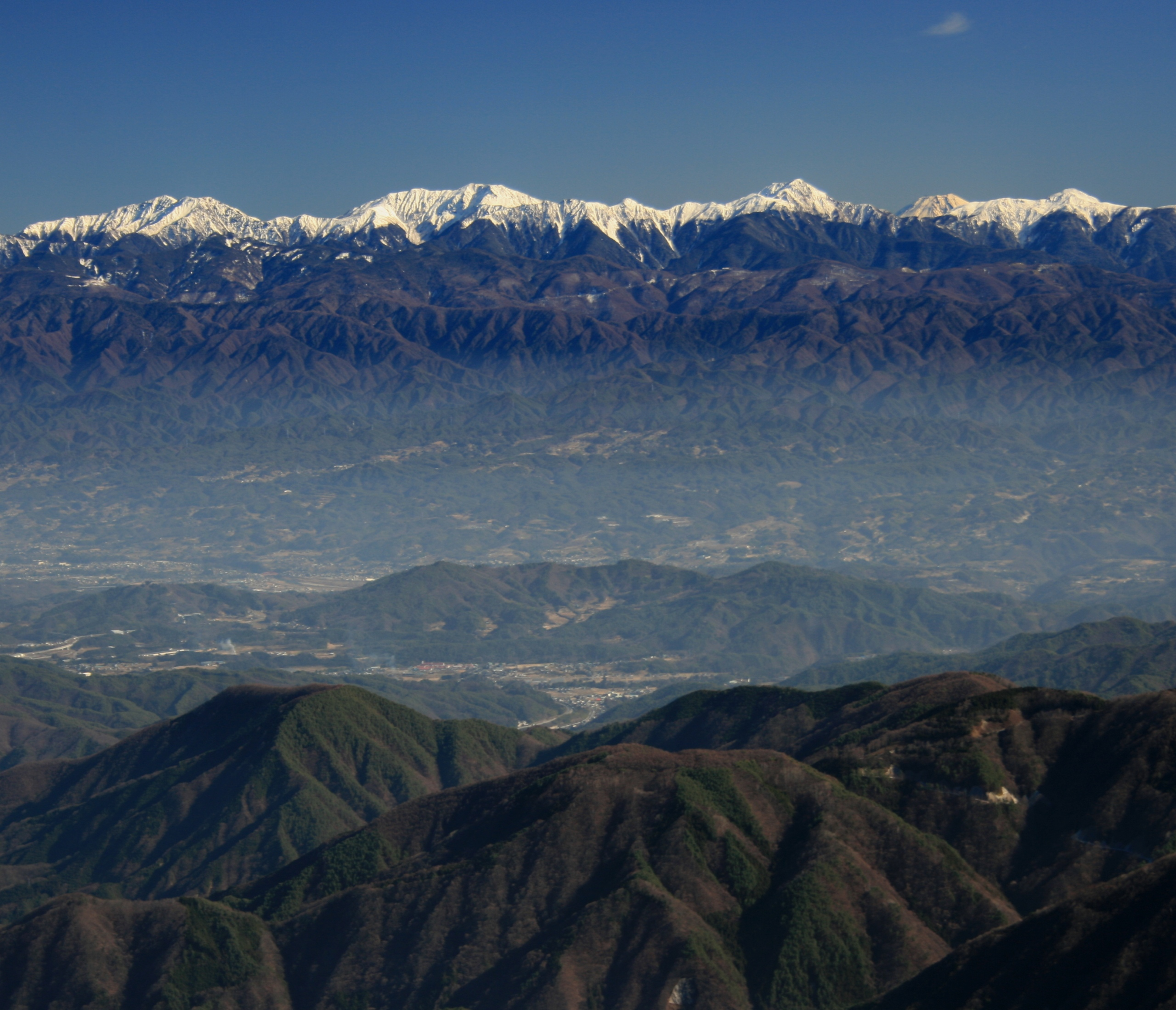 Akaishi Mountains and Mount Fuji from Mount Ena